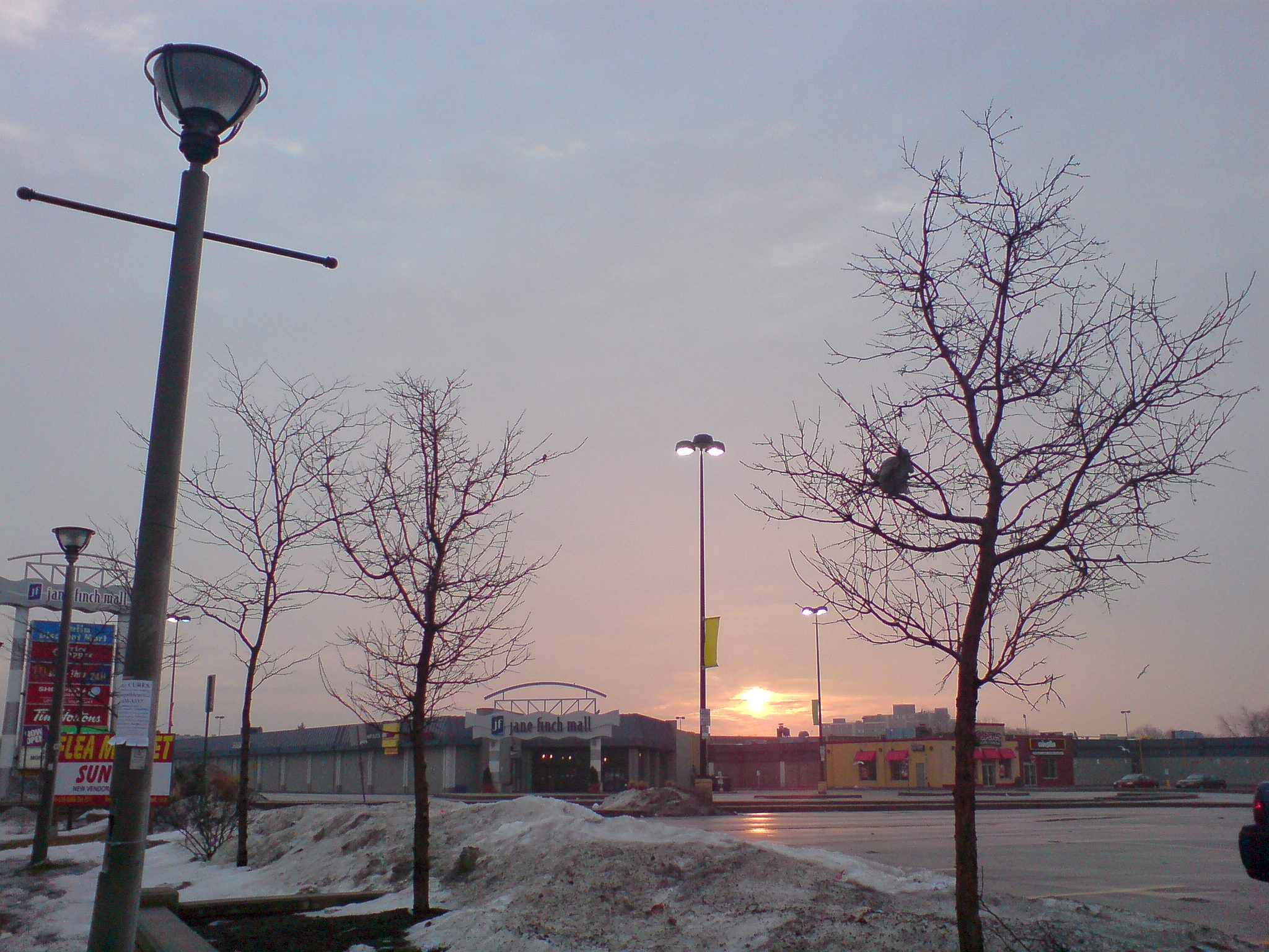 Sun rises over Jane Finch Mall, Toronto, Ontario, Canada.